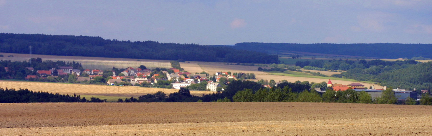 Village of kozojedy (Plzeň-North District, Czech Republic) as seen from road between Břízsko and Robčice.